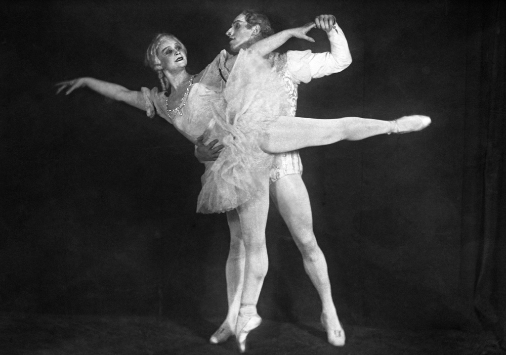 “Scene from "The Nutcracker" ballet”. People's Artist of Russia (since 1951) Maria Semenova as Princess and Alexei Yermolaev as the Nutcracker. A scene from Pyotr Tchaikovsky's ballet "The Nutcracker." The State Academic Bolshoi Theatre. The photograph was taken in 1939.